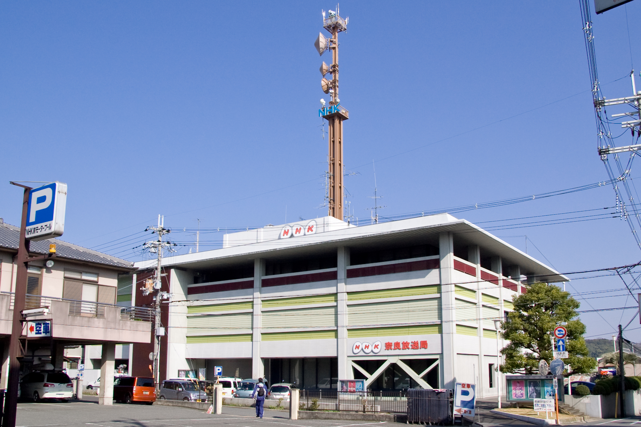 Photograph of NHK Nara Broadcasting Station in Nara, Nara Prefecture, Japan.